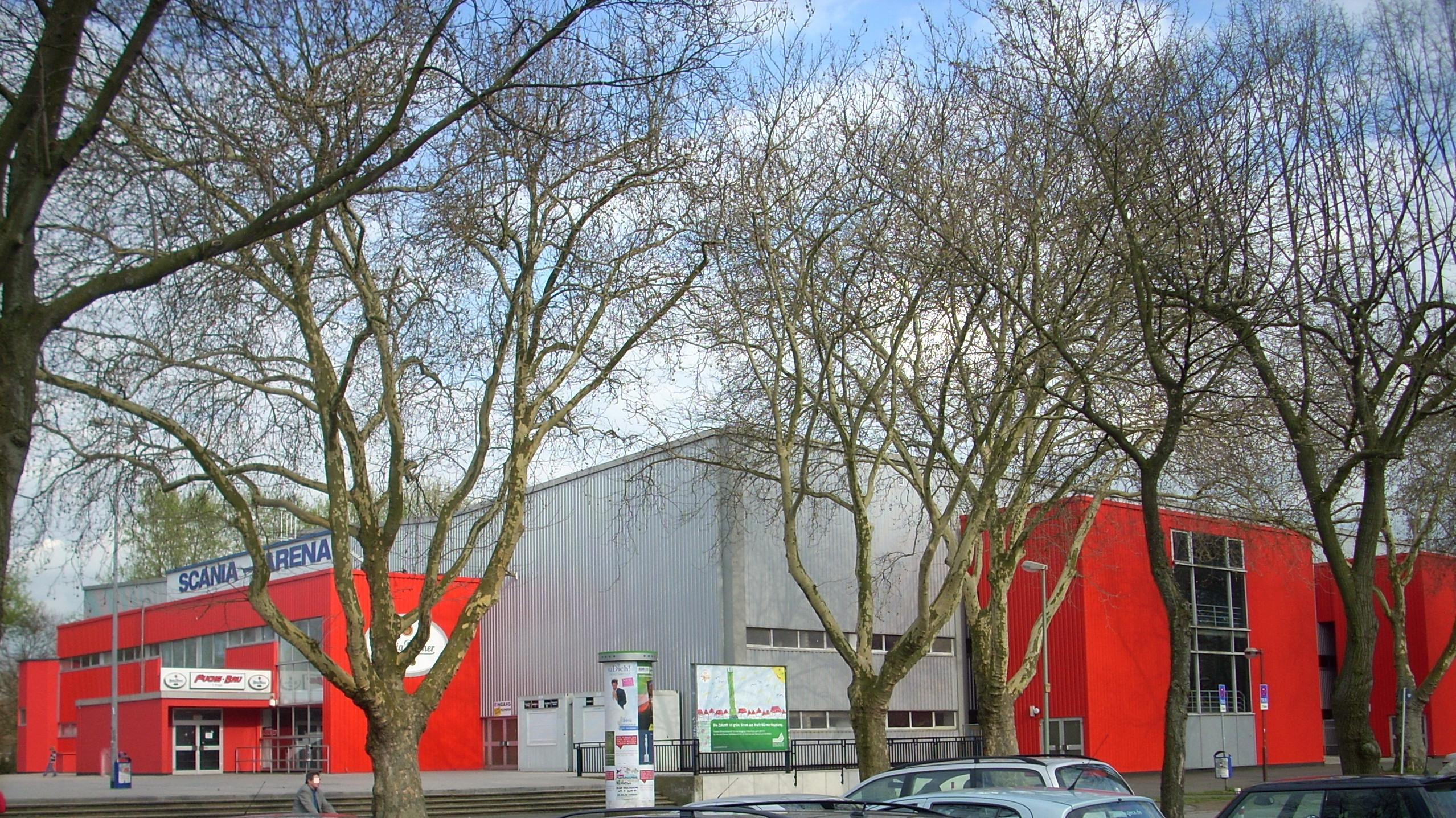 Panoramic view of the Ice Stadium “SCANIA-Arena” in Duisburg in April 2010